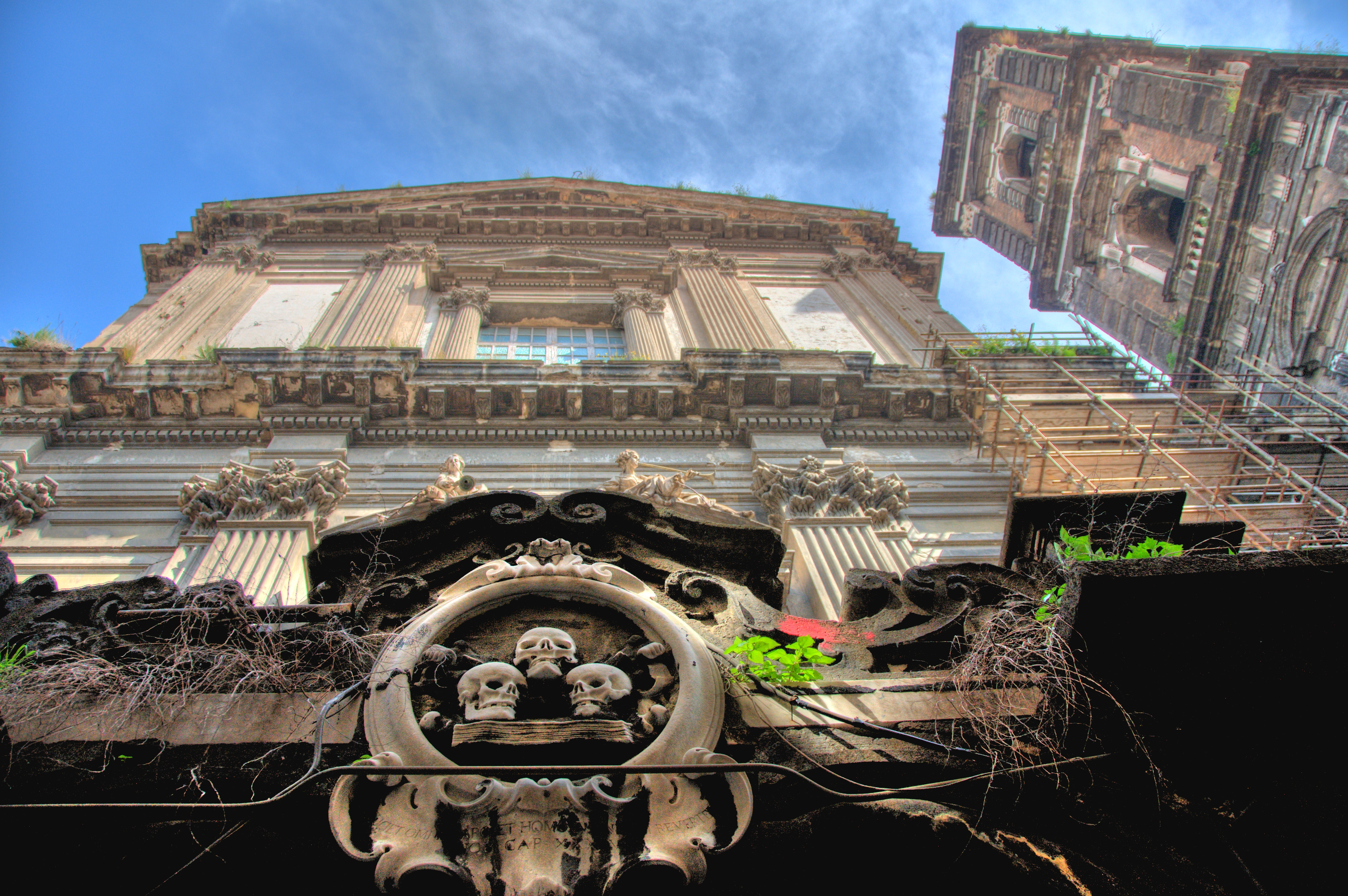 This is a church in Naples, Italy : Chiesa di Sant'Agostino alla Zecca